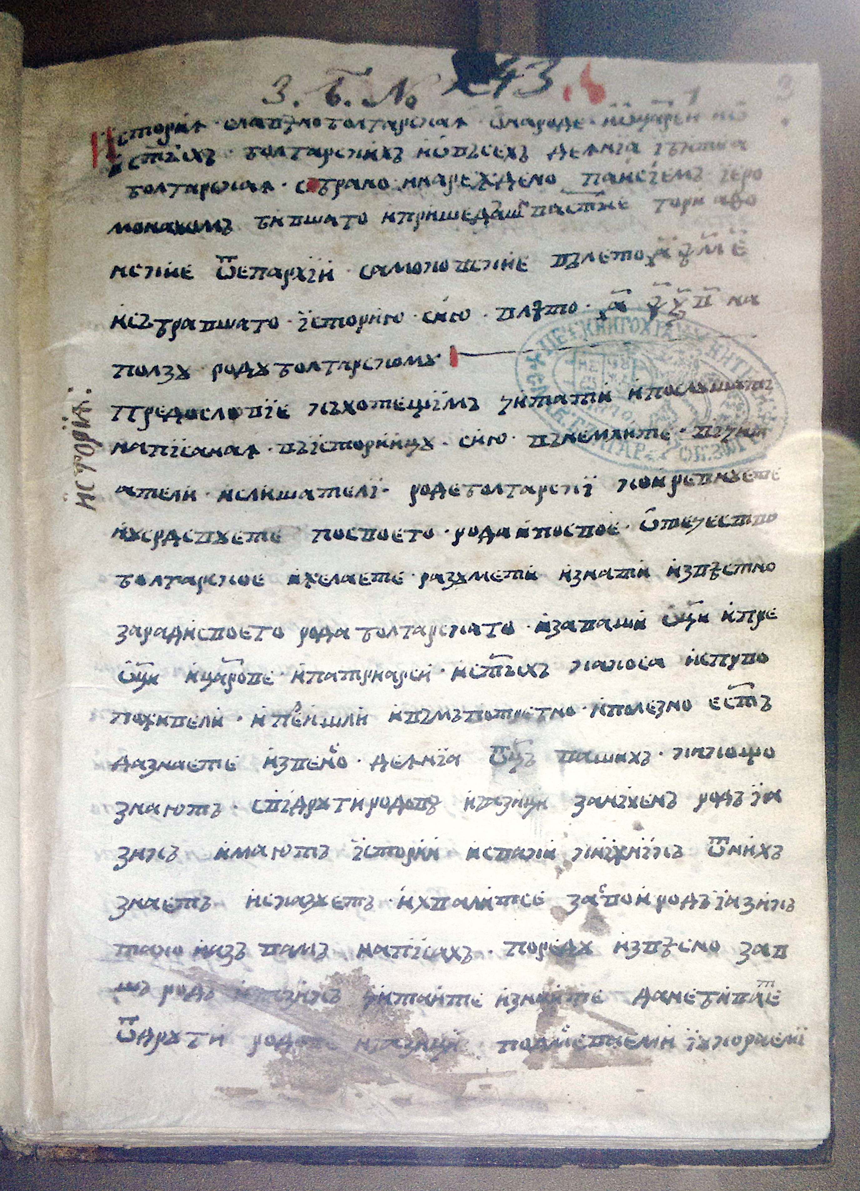 A photo of the first page of the original draft of Istoriya Slavyanobolgarskaya by Paisius of Hilendar.